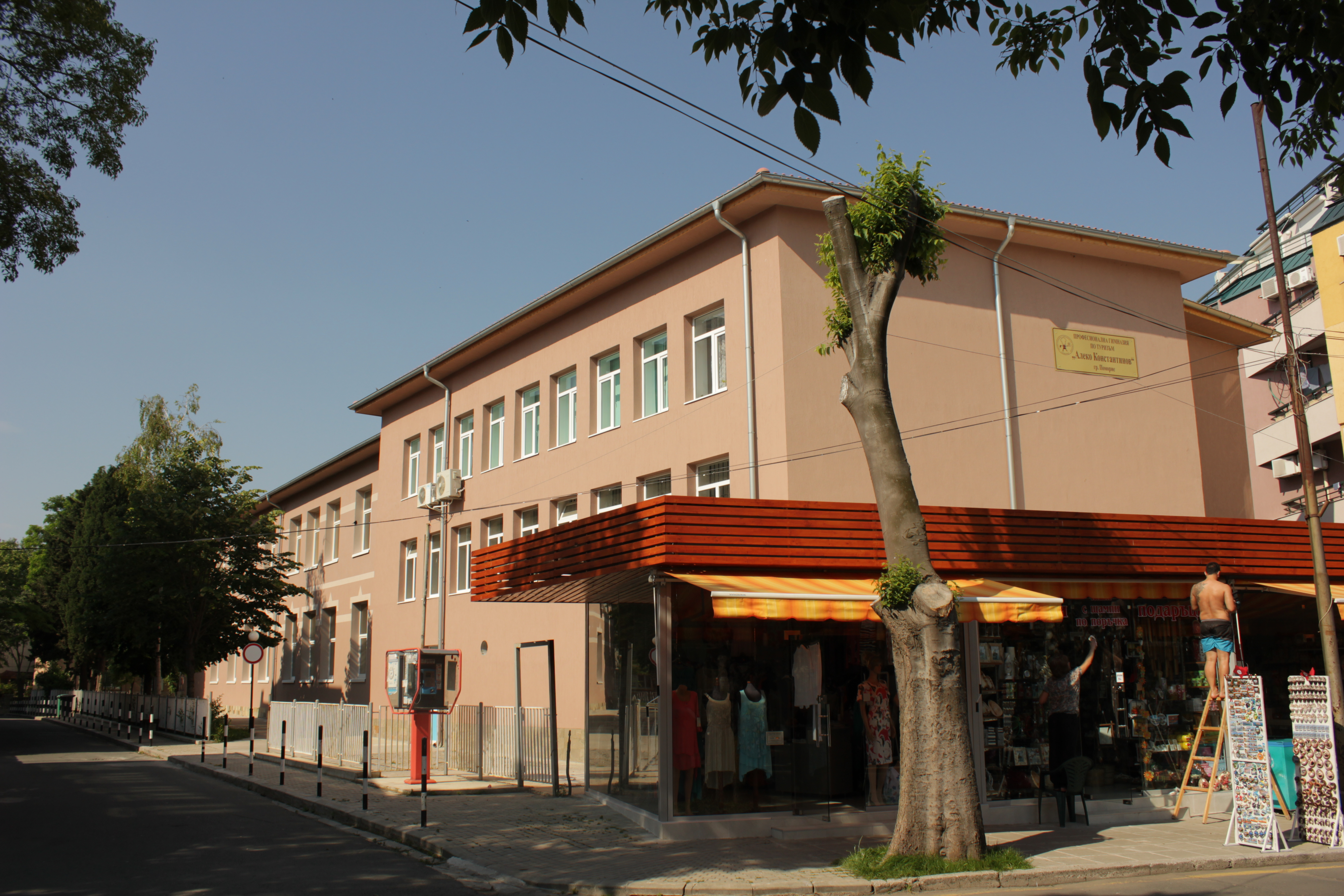 Pomorie Professional school of Tourism Alrko Konstantinov